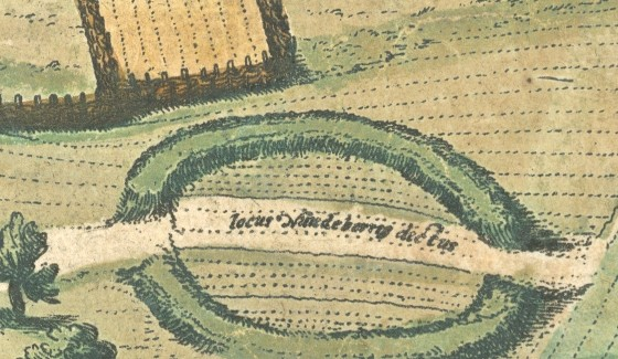 Detail from engraving of Odense from Braun & Hogenberg: Civitates Orbis Terrarum 1593.